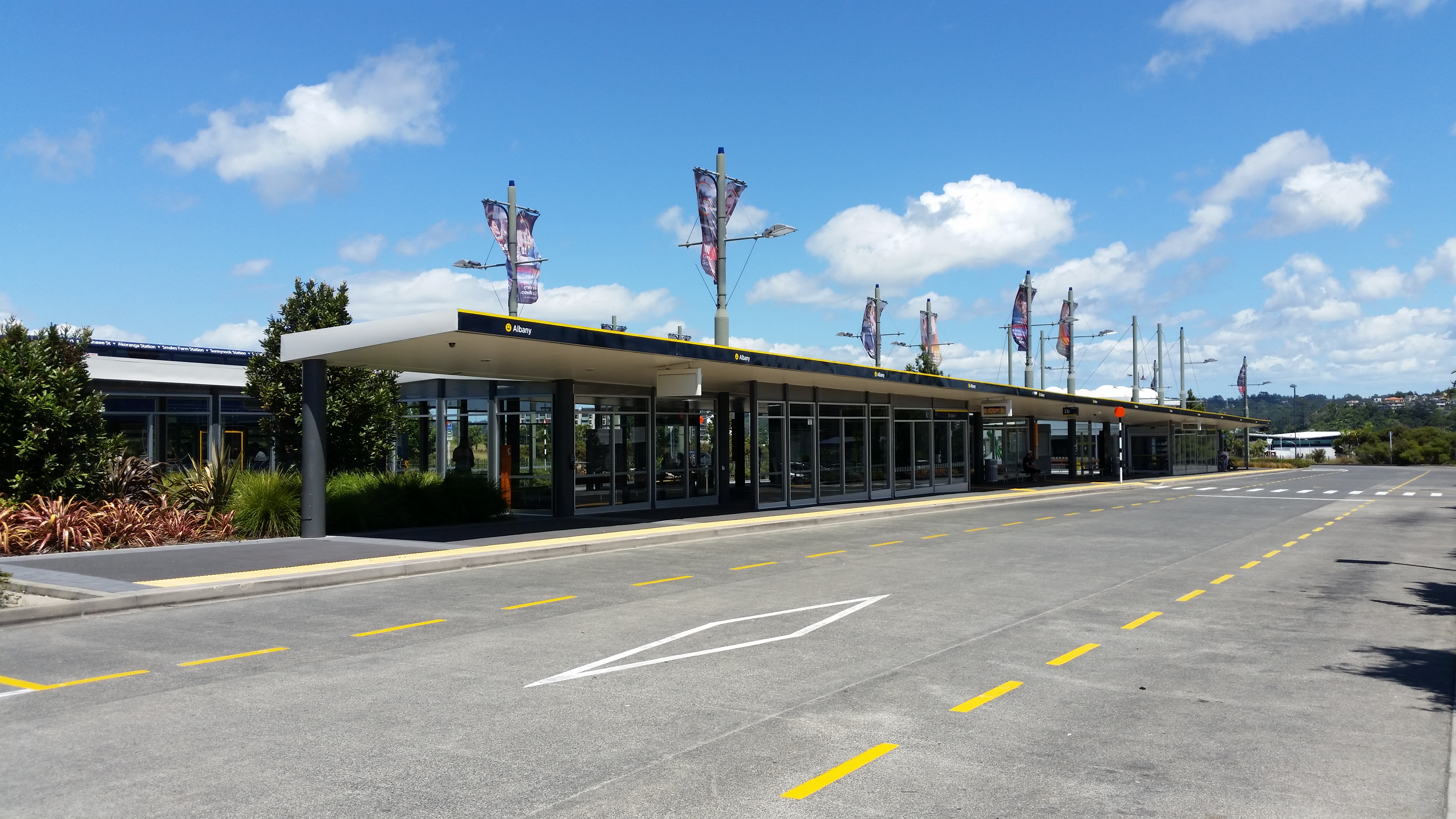 A photo of Albany Busway Station in Auckland, New Zealand, seen from the northern side